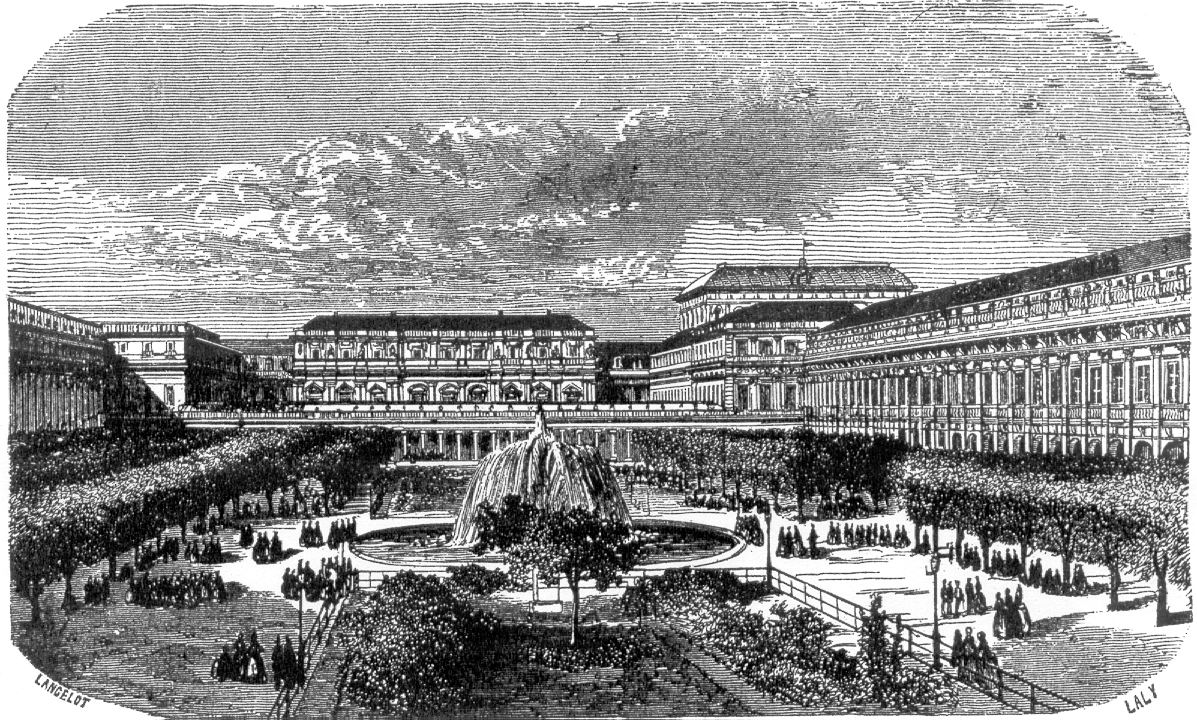 Palais-Royal, Paris, in an 1863 guidebook, engraving from 1863